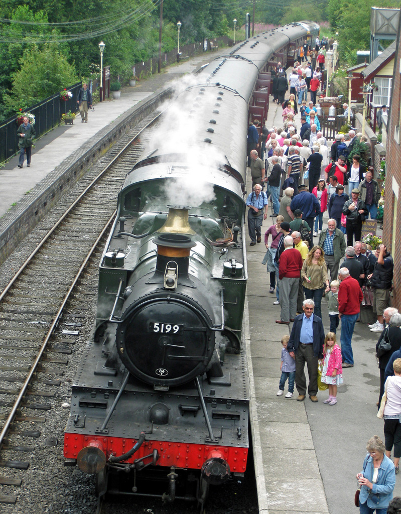 Kinglsley and Froghall railway station on the Churnet Valley line